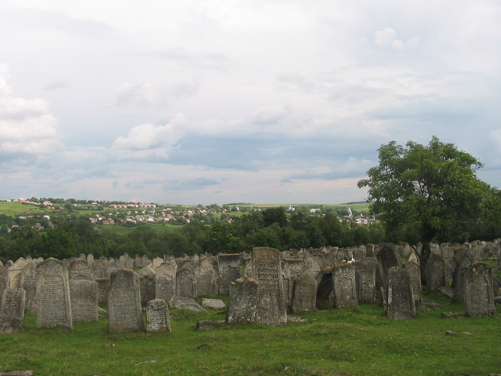 View over old Jewish cemtery in Pidhaytsi, Ternopil oblast, western Ukraine